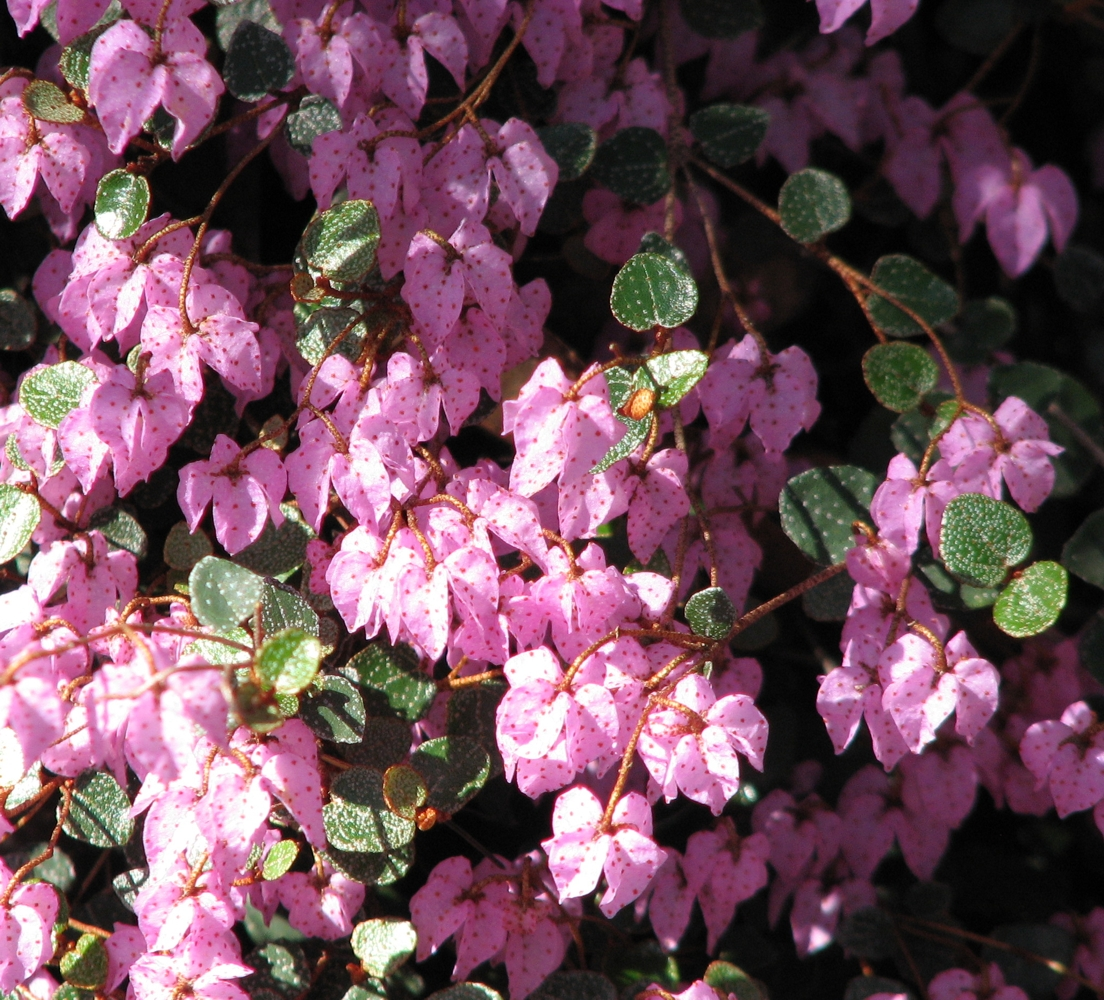 Thomasia pygmaea (cultivated, labelled) Royal Botanic Gardens, Cranbourne, Victoria, Australia